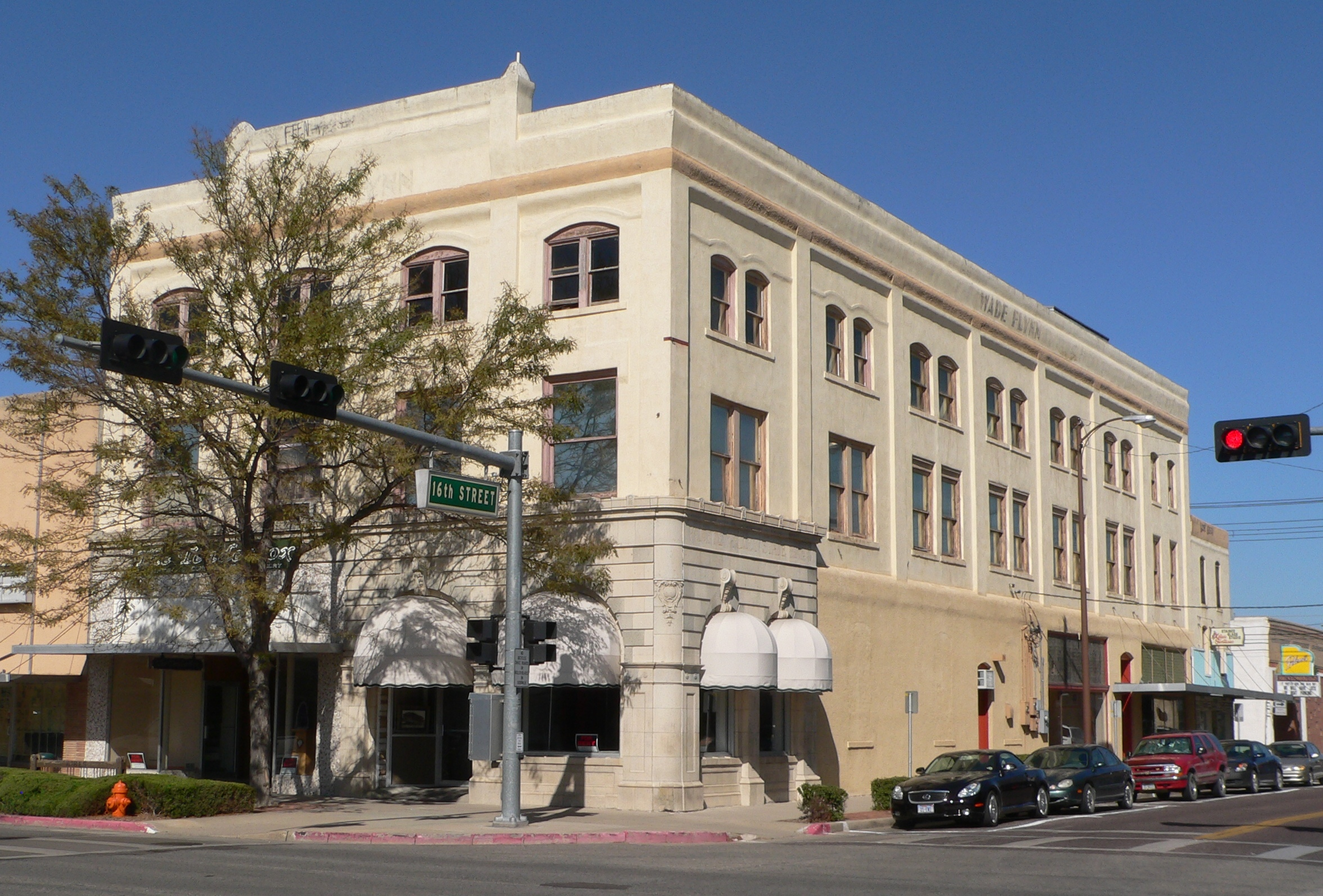 Marquis Opera House, a.k.a. Flynn Building, at northeast corner of 16th Street and Broadway in Scottsbluff, Nebraska; seen from the southwest. The Classical Revival building was constructed in 1909-10. It is listed in the National Register of Historic Places.